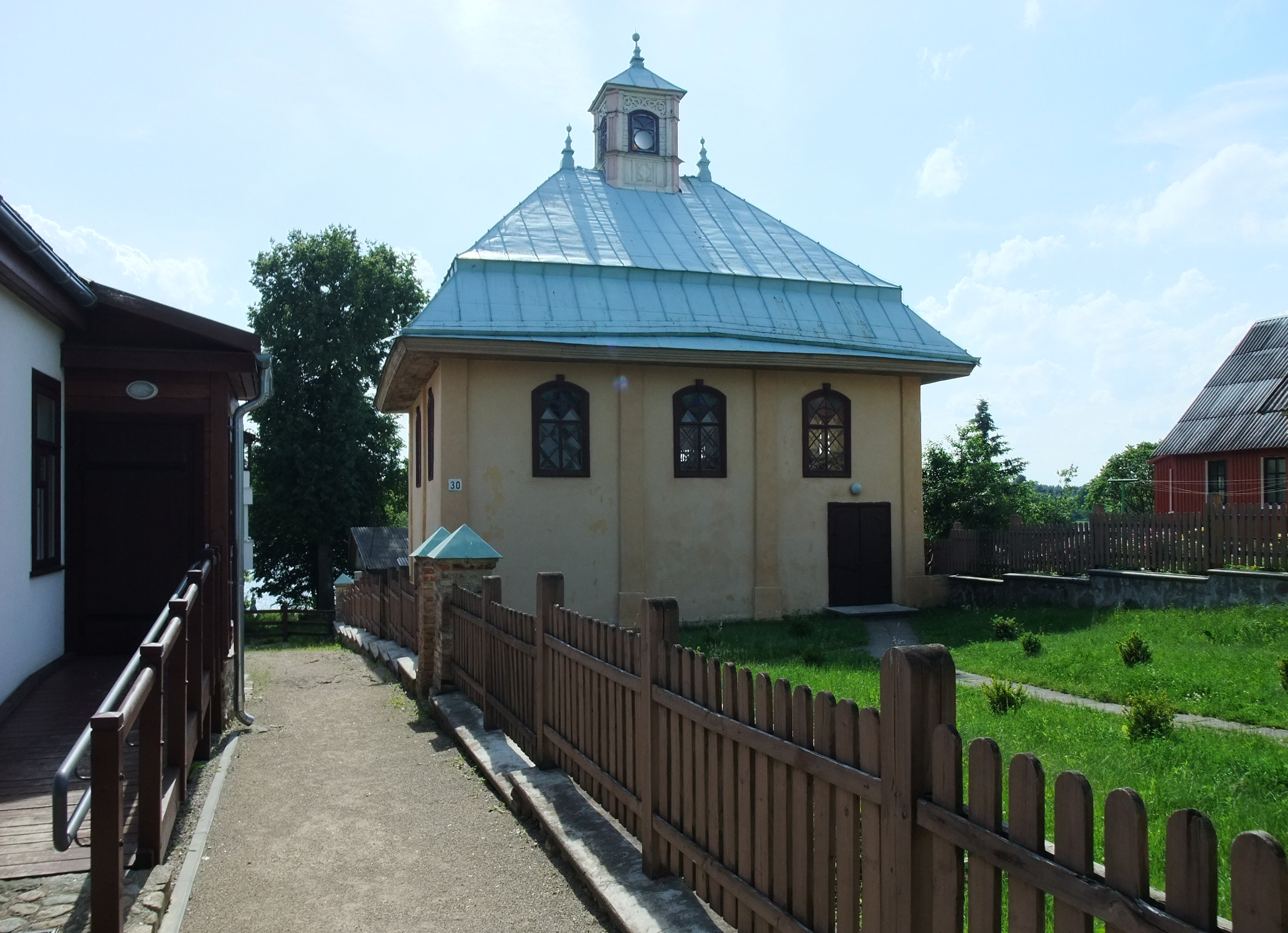 Karaite praying house in Trakai, Lithuania